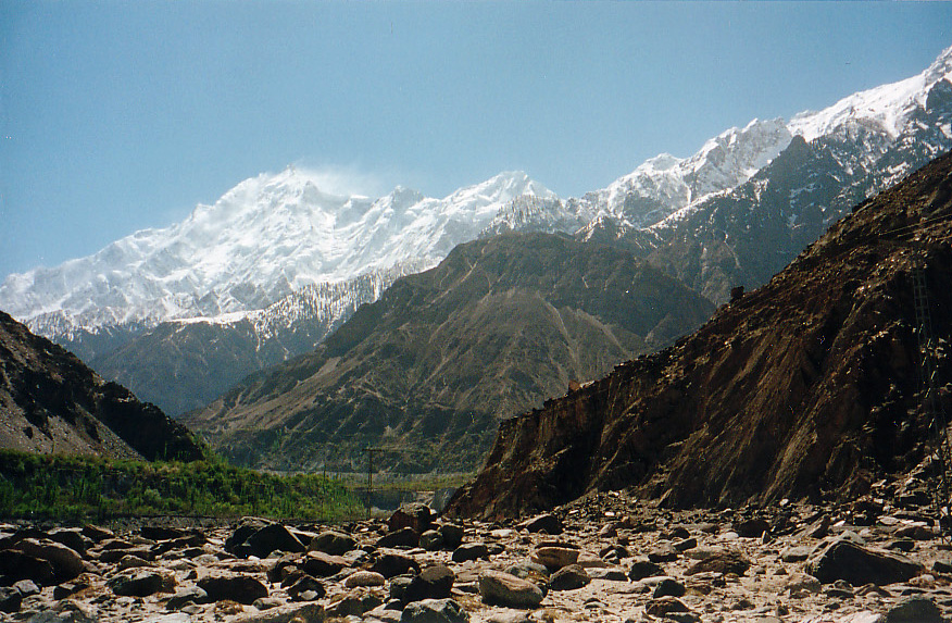 First climbed in 1958 by Mike Banks and Tom Patey.